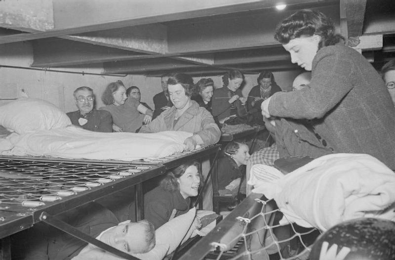 Shelter Photographs Taken in London by Bill Brandt, November 1940 Shelterers knit and chat on their steel bunks in this North London air raid shelter.